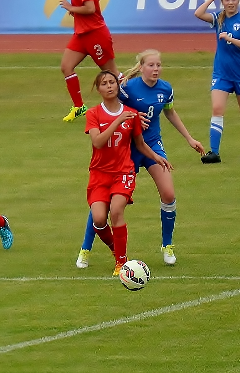 Demet Kılınç in the Turkey women's national under-17 football team at UEFA Women's Under-17 Championship qualification Elite round match against Finland